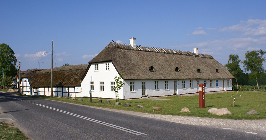 Lejre Museum, the mainbuilding Hestebjerggaard